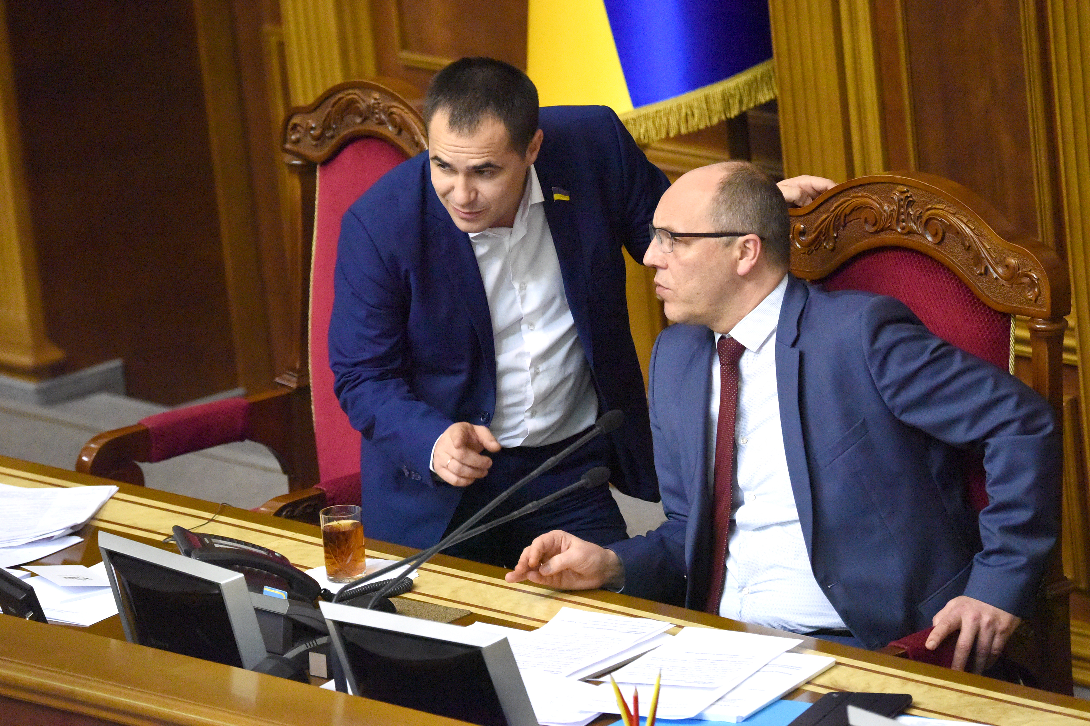 PARLIAMENT OF UKRAINE_Vadim Chuprina